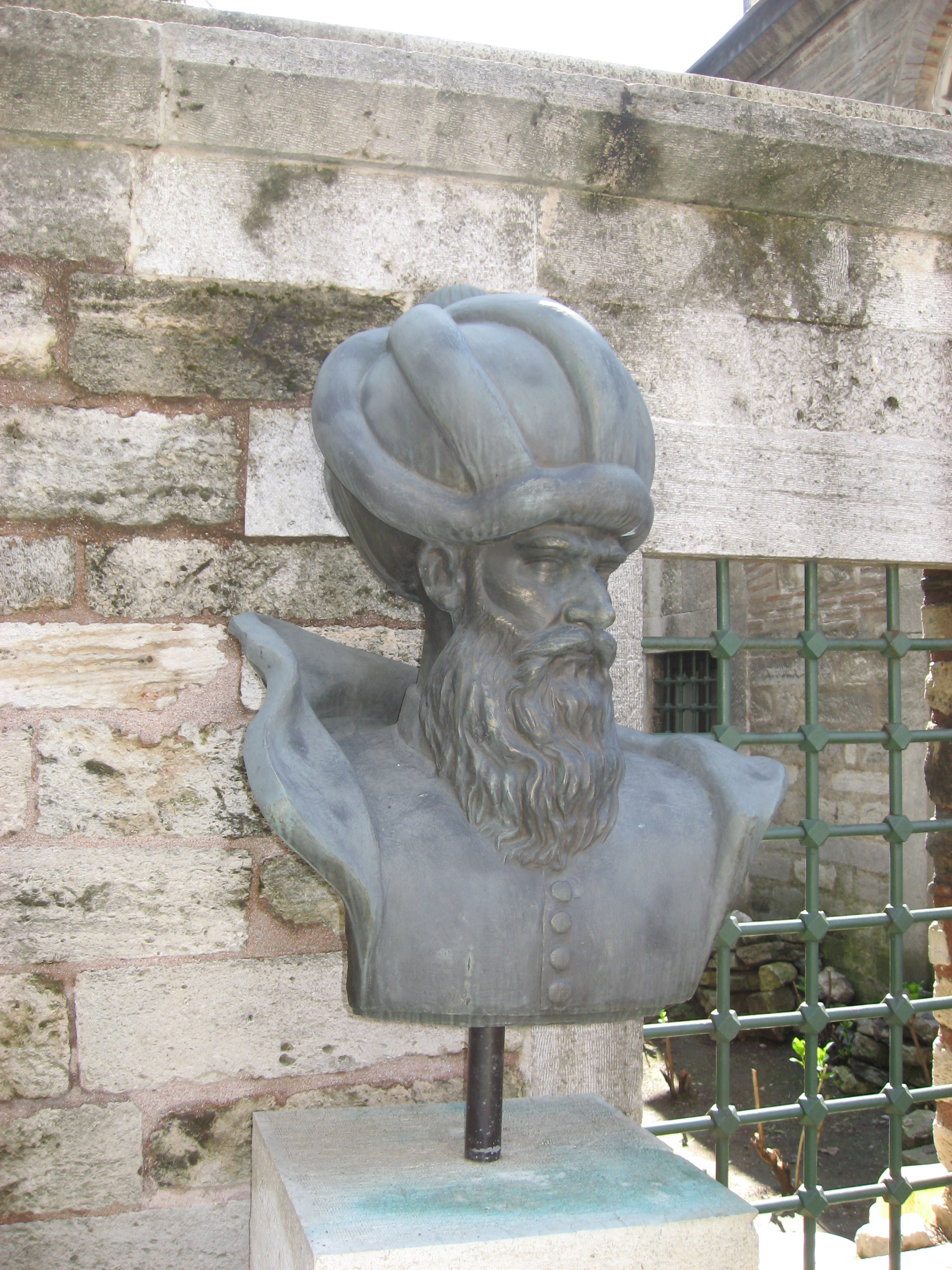 bronze bust of the architect Sinan, at the Caferağa Medresseh in Istanbul.